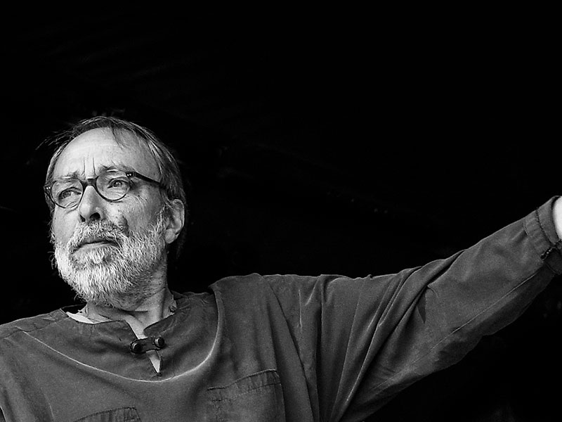 Butch Lacy @ Aarhus Jazz Festival